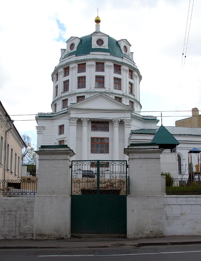 St.Simeon Stylite in Nikoloyamskaya Street, Moscow. In Soviet age, the building was partitioned into offices, with windows cut through the main dome. As a result, the structure is too weak to be restored to original shape.